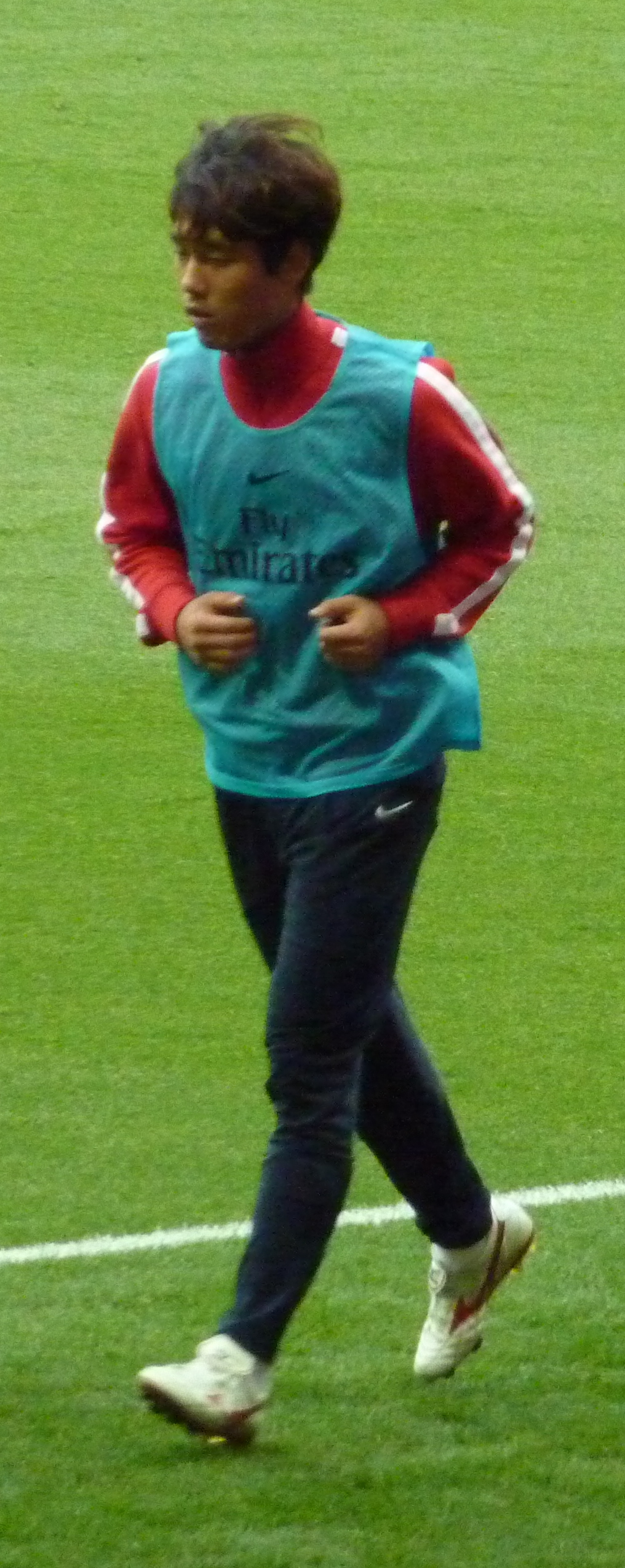 Park Chu-Young of Arsenal warms up